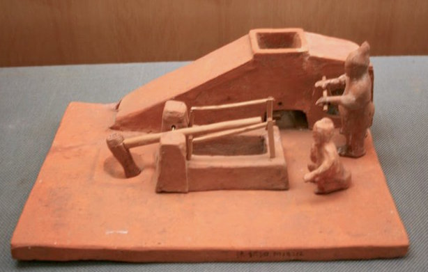 A Han-dynasty (202 BC – 220 AD) era Chinese pottery model of two men operating a winnowing machine with a crank handle and a tilt hammer used to pound grain.